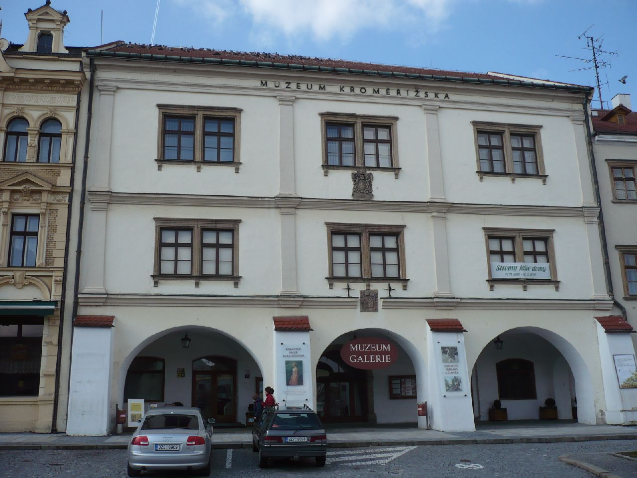 Kromeriz - Big sguare, Museum